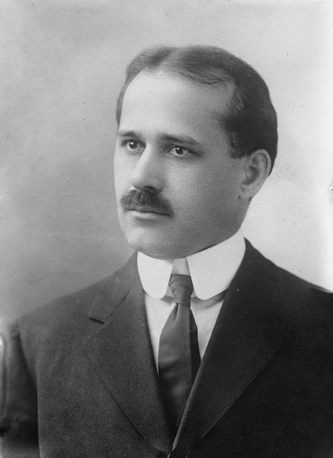 Dr. Harry E. Bard circa 1915 (LOC) Bain News Service,, publisher. Dr. Harry E. Bard [between ca. 1910 and ca. 1915] 1 negative : glass ; 5 x 7 in. or smaller. Notes: Title from unverified data provided by the Bain News Service on the negatives or caption cards. Forms part of: George Grantham Bain Collection (Library of Congress). Format: Glass negatives. Repository: Library of Congress, Prints and Photographs Division, Washington, D.C. 20540 USA, General information about the Bain Collection is available at Persistent URL: Call Number: LC-B2- 3113-4